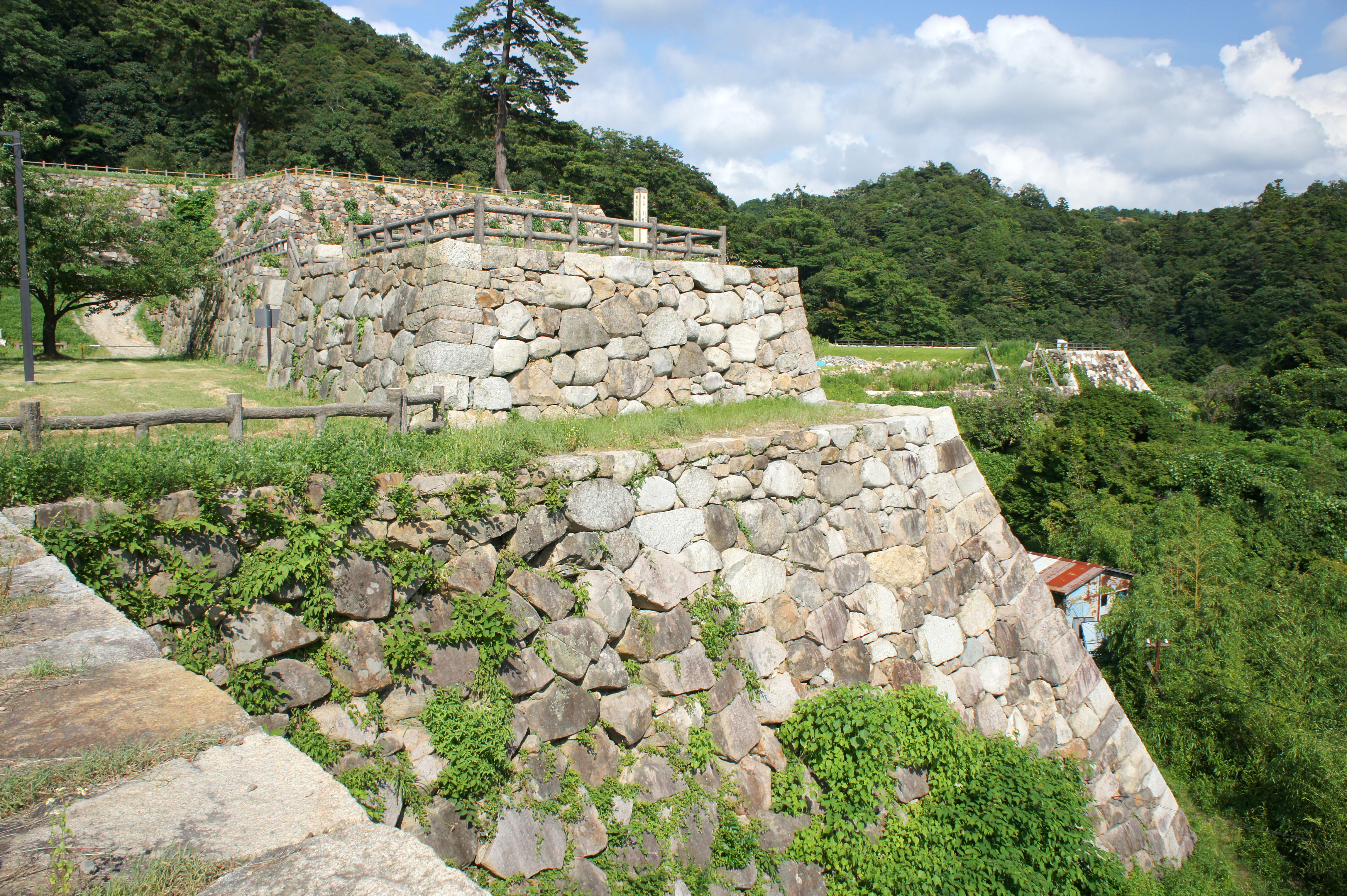 Tottori Castle in Tottori, Tottori prefecture, Japan